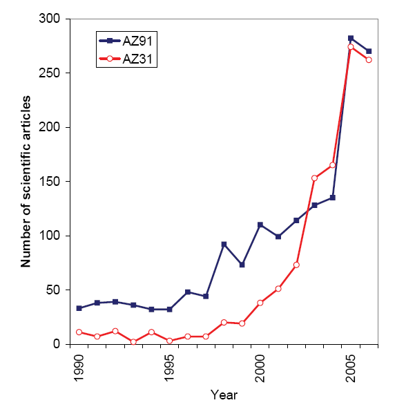 Number of scientific articles which have terms AZ91 or AZ31 in the abstract. Values are from Cambridge Scientific Abstracts.